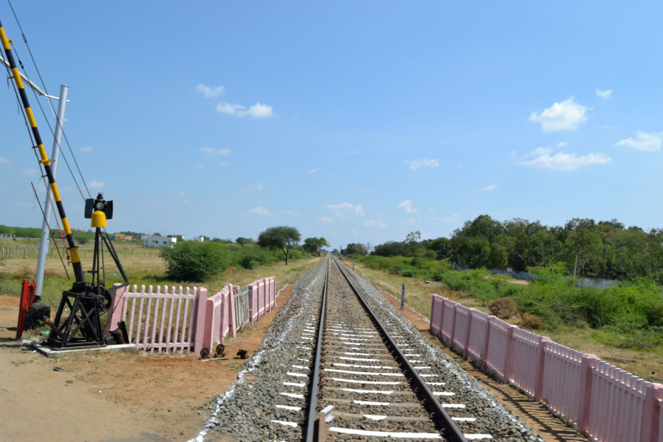 A typical level crossing found in India.